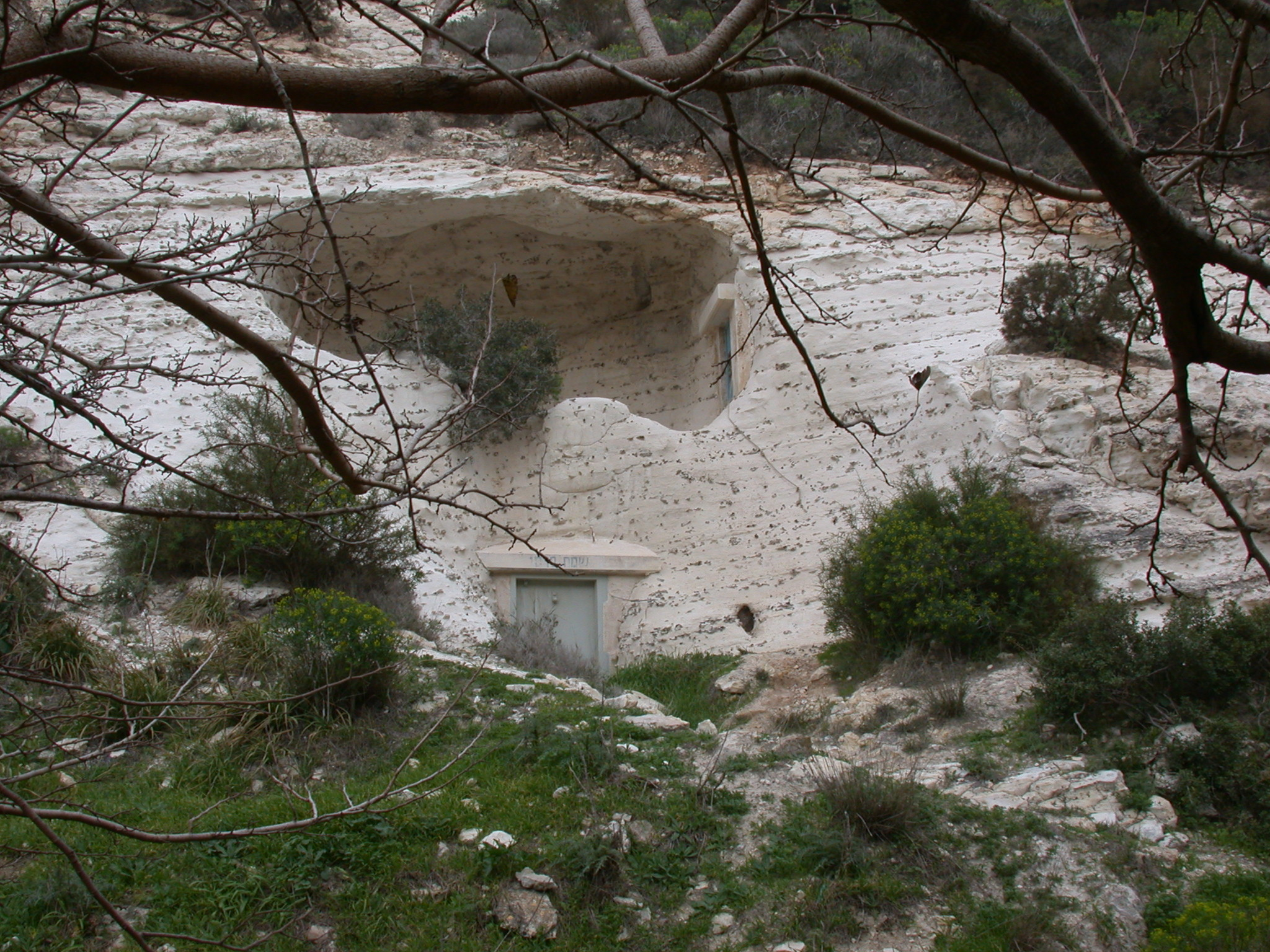 Natural cave used by Carmelite monks in Nahal Siah, Haifa, Israel.